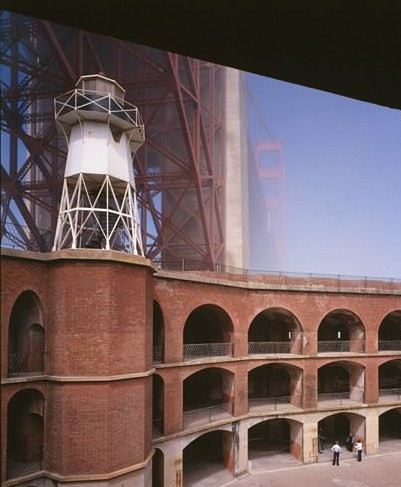 Fort Point Light, U.S. Highway 101, San Francisco (San Francisco County, California) - Cropped